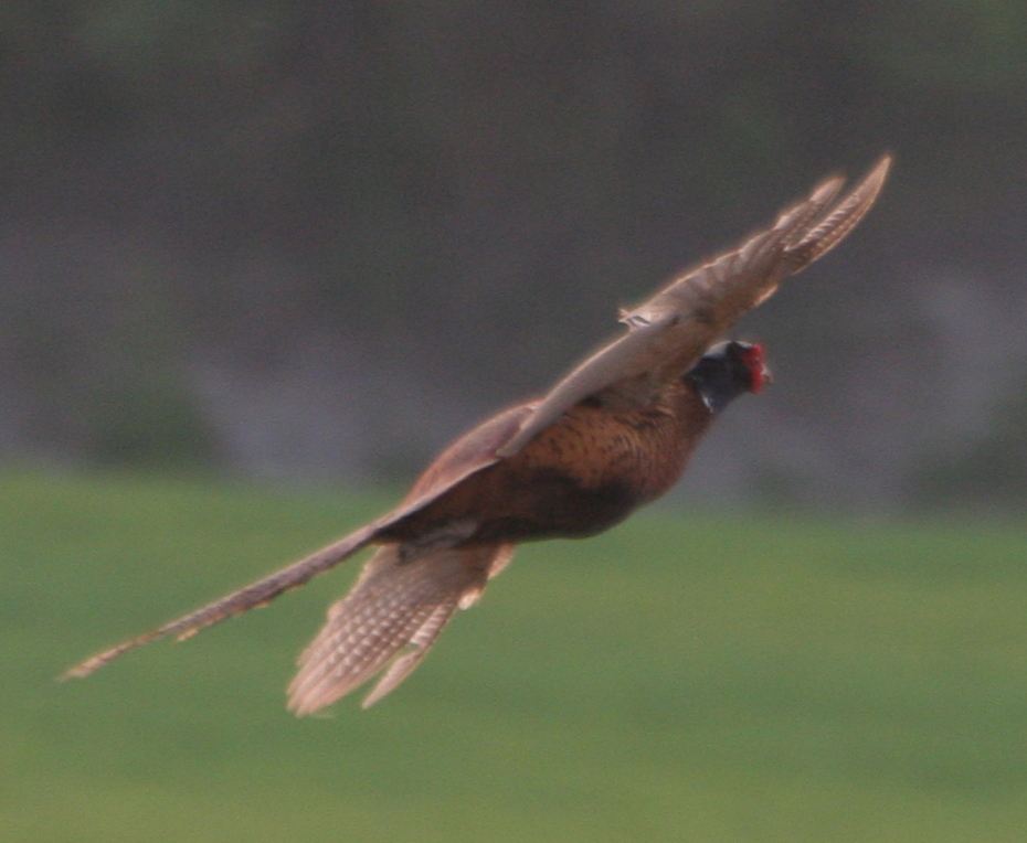 A startled pheasant takes flight in fields near Munich